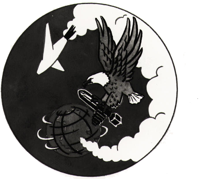 Emblem of the 323d Strategic Reconnaissance Squadron (SAC)